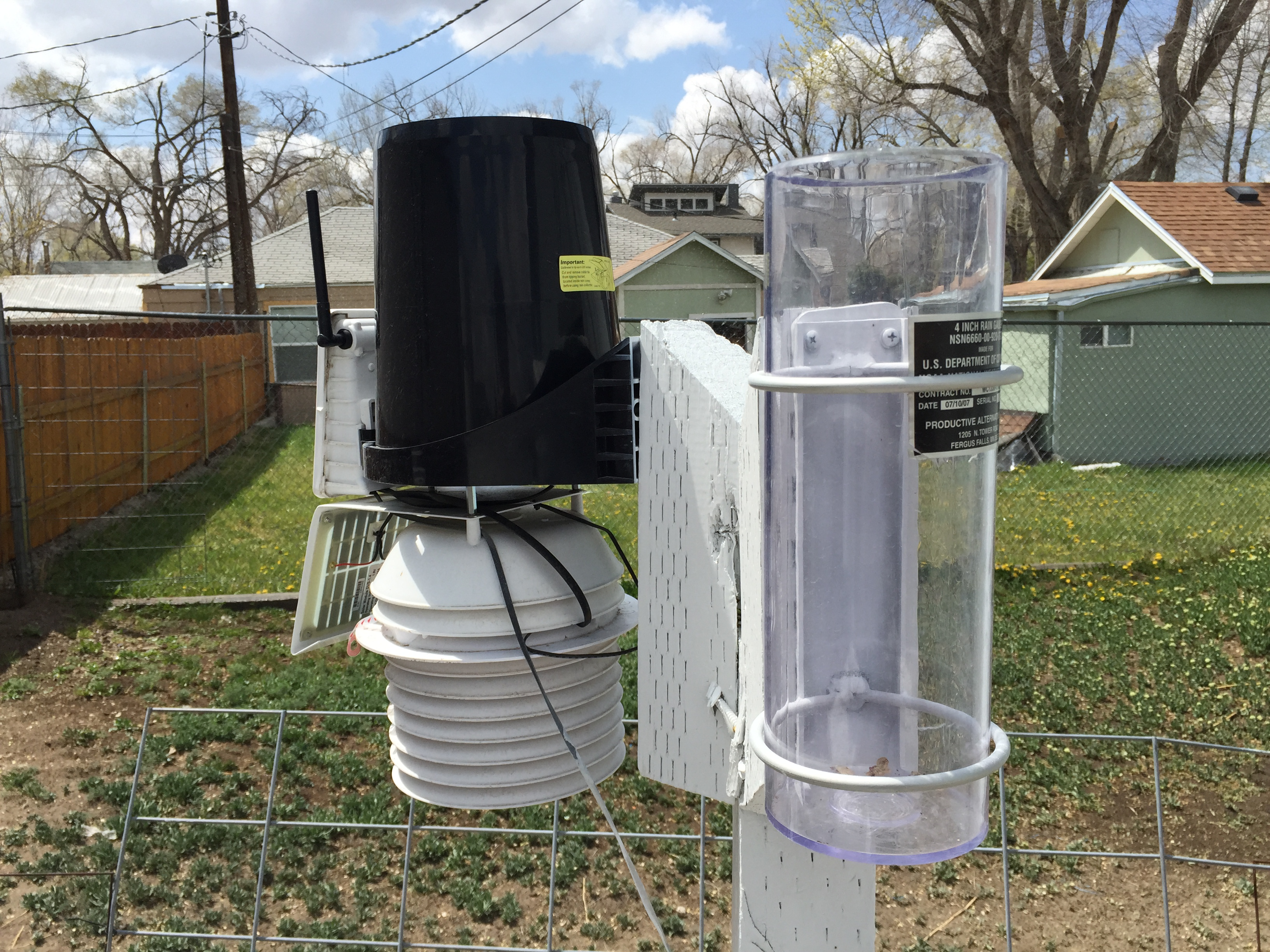 Davis precipitation gauge and temperature/dew point sensors and a 4-inch manual rain gauge at CWOP station EW0093 and CoCoRaHS station NV-EL-9 in Elko, Nevada